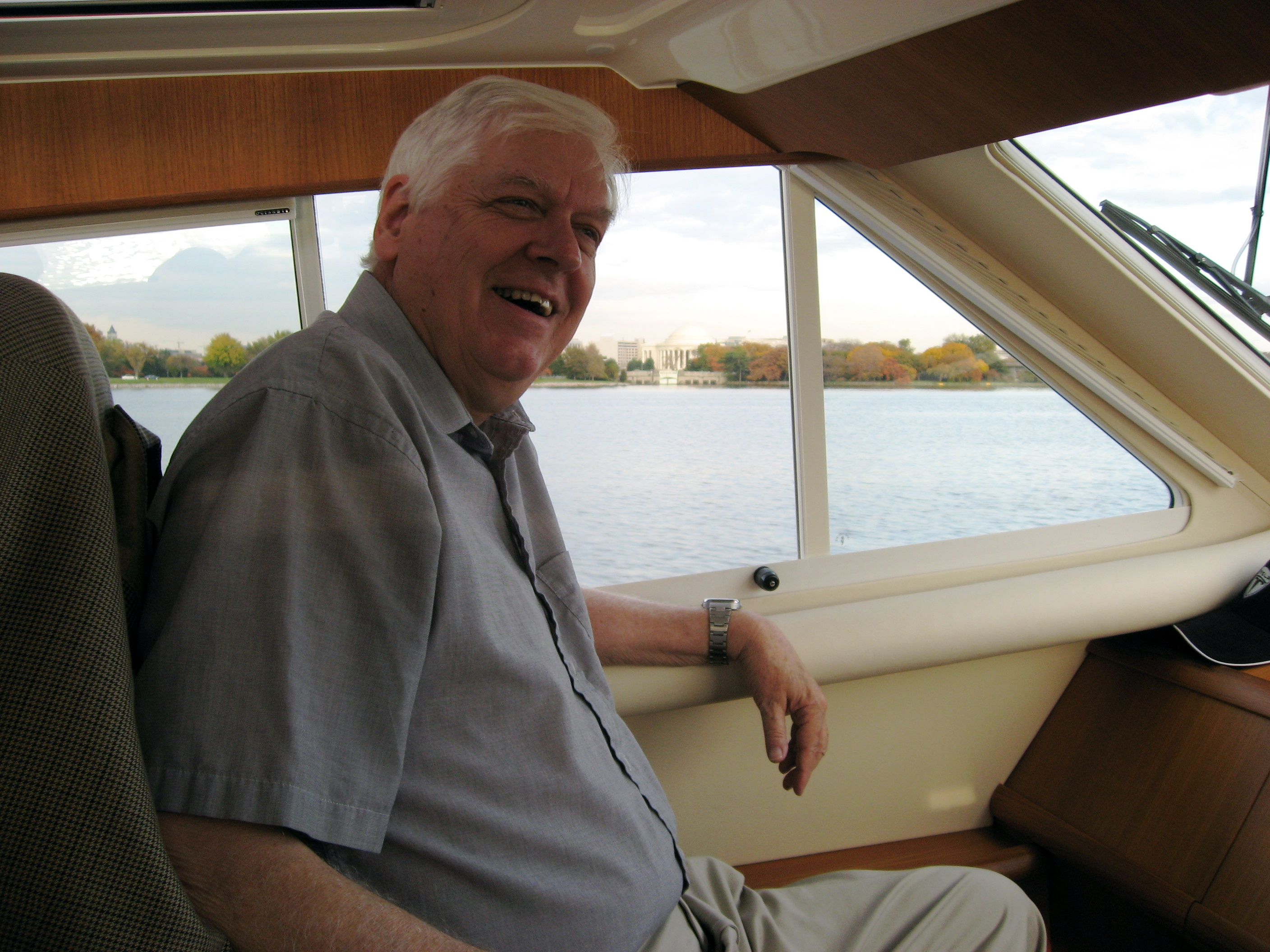 Nobel prize winning microbiologist Hamilton O. Smith.